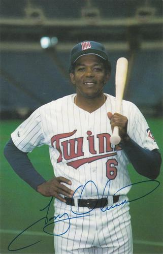 Professional baseball coach Tony Oliva